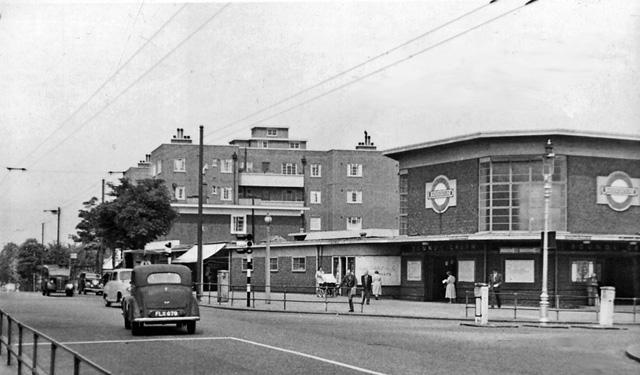 Bounds Green (Underground) Station, entrance. View NW on Bounds Green Road; LT Piccadilly Line to Cockfosters. (This was the site of a dreadful incident in the Blitz of 1940, when a direct hit by a bomb that penetrated to the tunnel (55 feet below the surface) killed 19 shelterers).